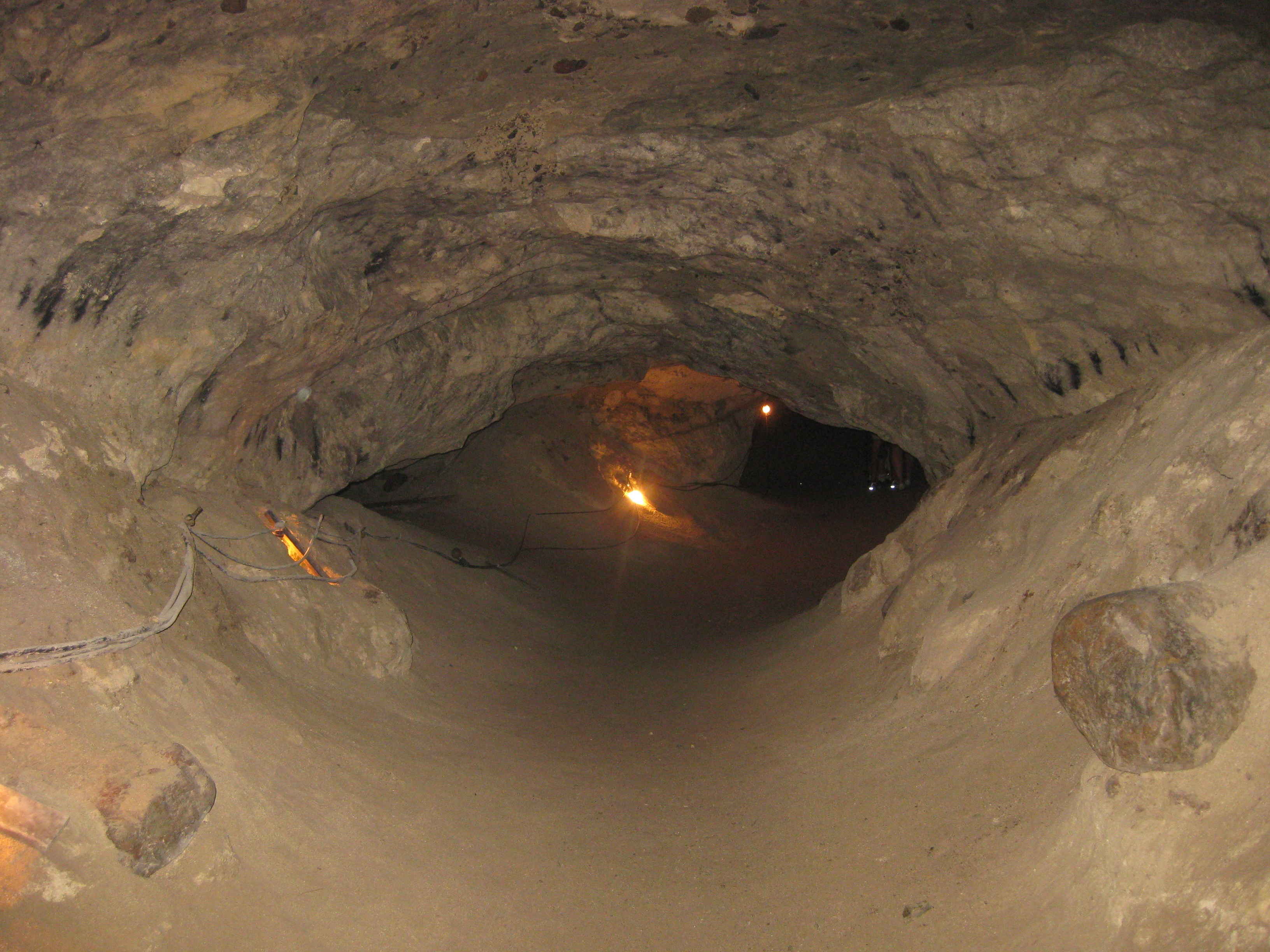 Tykarpsgrottan